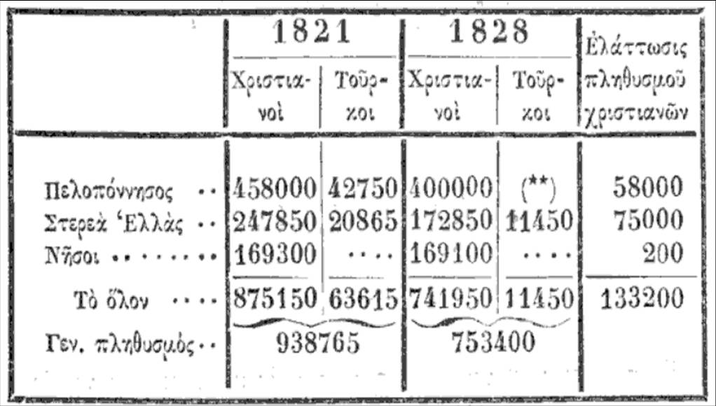 Table with numbers of the Greek census of 1828 performed by I. Kapodistrias Published by State executive of 1867, Alexandros Mansolas in the preface of the book Πολιτειογραφικαί πληροφορίαι περί Ελλάδος / υπό Α. Μανσόλα. Εθνικό Τυπογραφείο, 1867